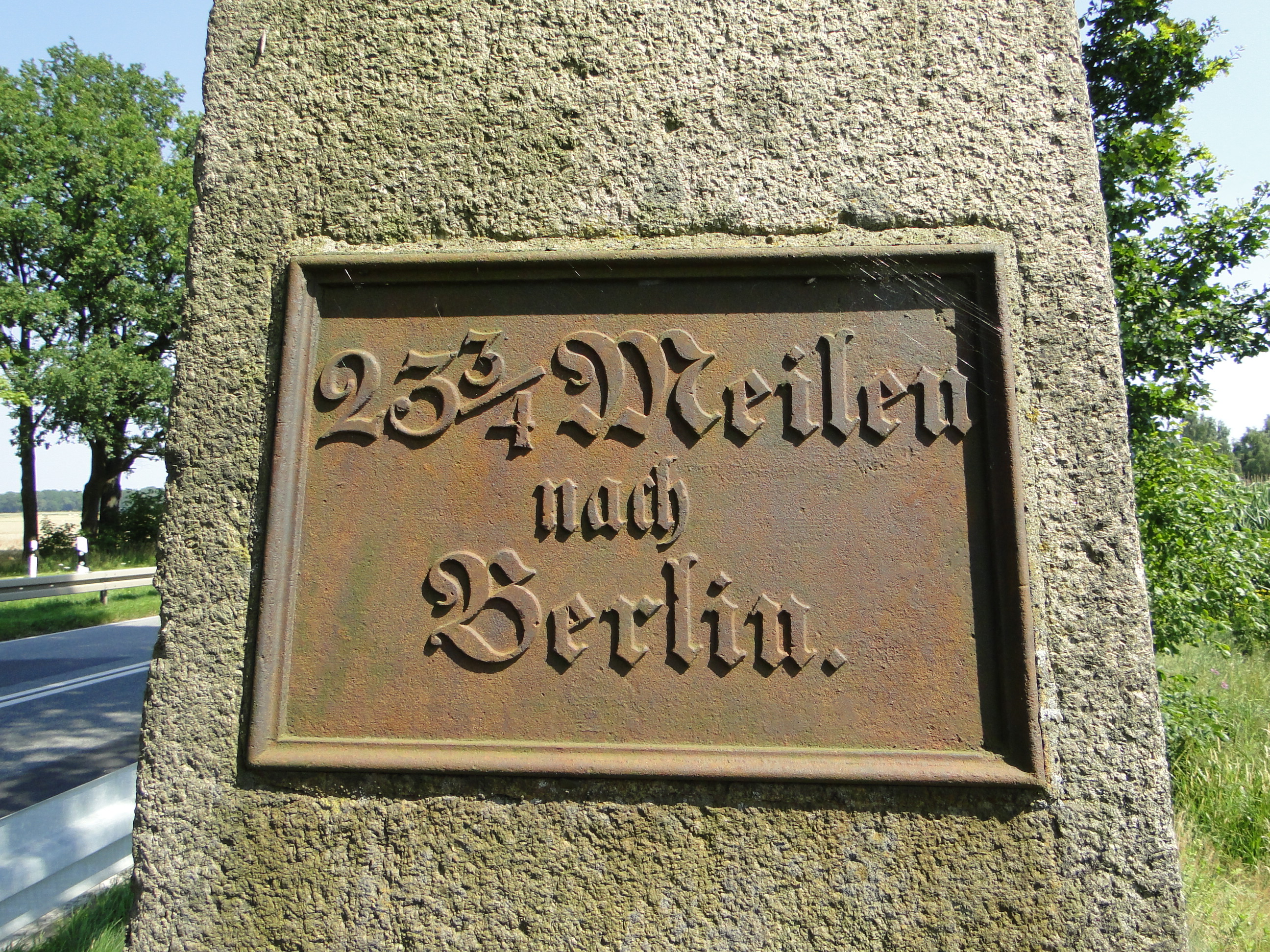 Milestone on the Bundesstraße 5 in Lindenkrug (Kummer), district Ludwigslust-Parchim, Mecklenburg-Vorpommern, Germany